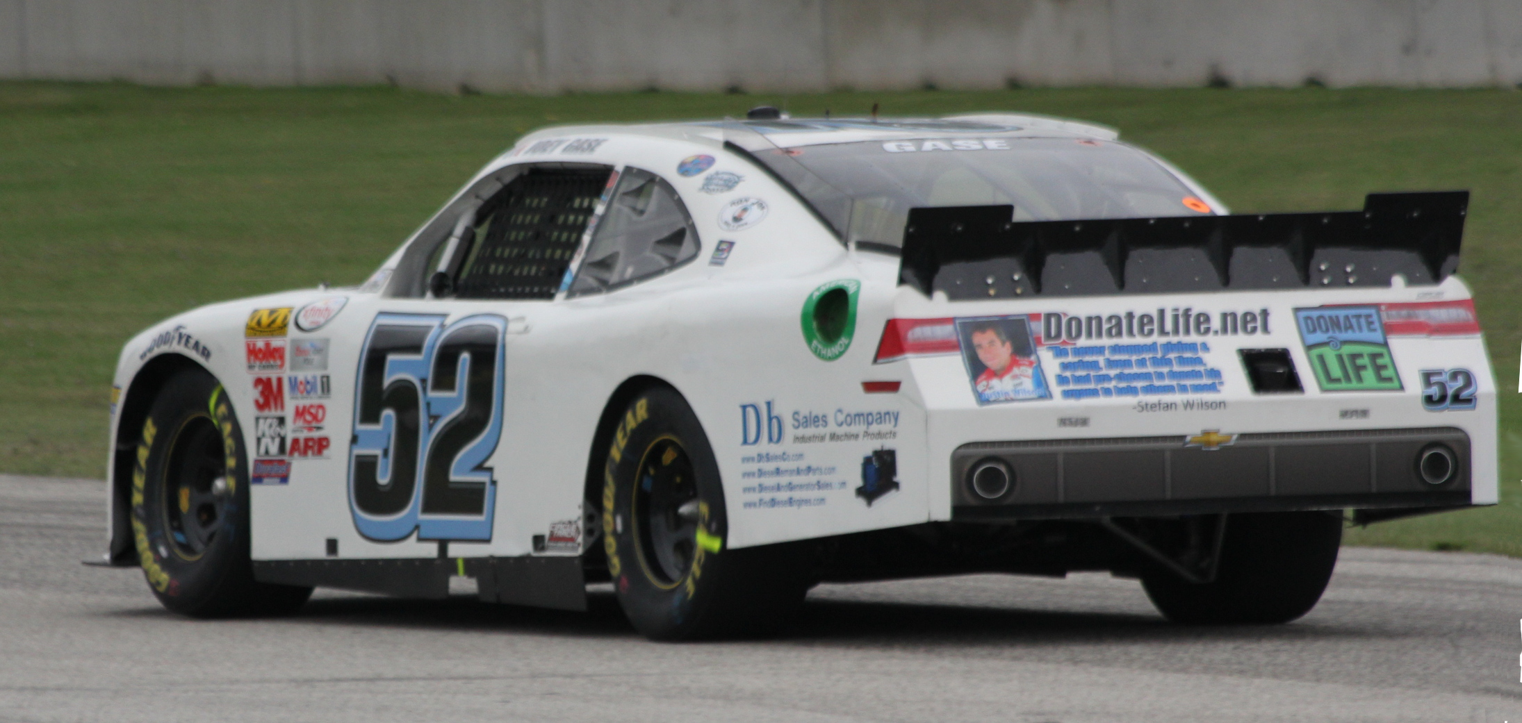 The NASCAR Xfinity Series car of Joey Gase after exiting Turn 6 at Road America. The rear bumper pays homage to Indycar Justin Wilson who died shortly before the race. It urges people to be an organ donor.